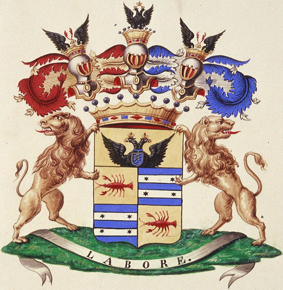 Cancrin COA in Russia